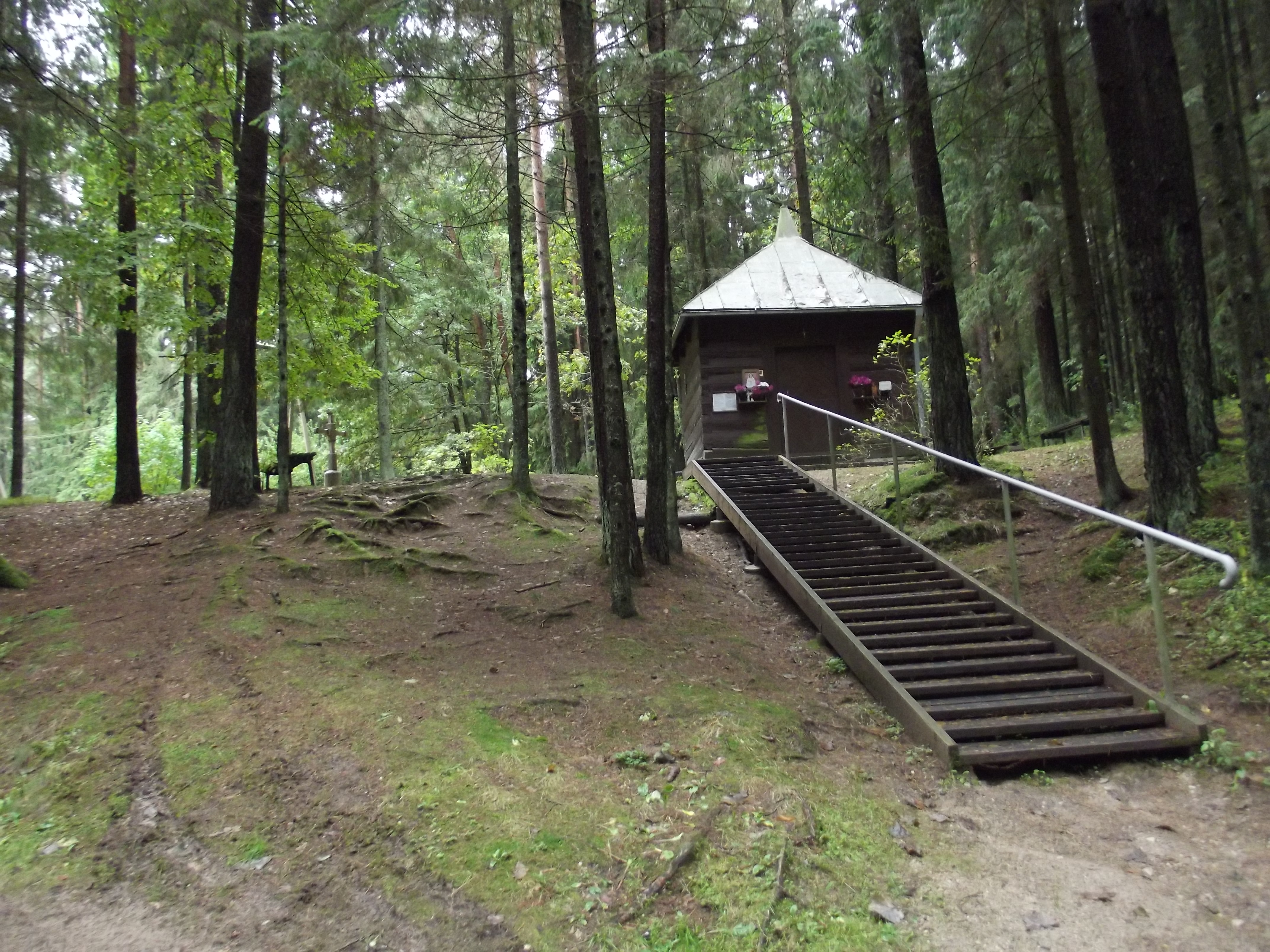 By Višakio Rūda Stream, Kazlų Rūda municipality, Lithuania